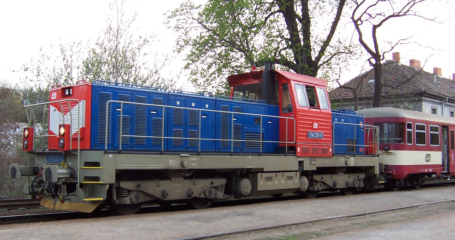 Czech diesel locomotive class 714.